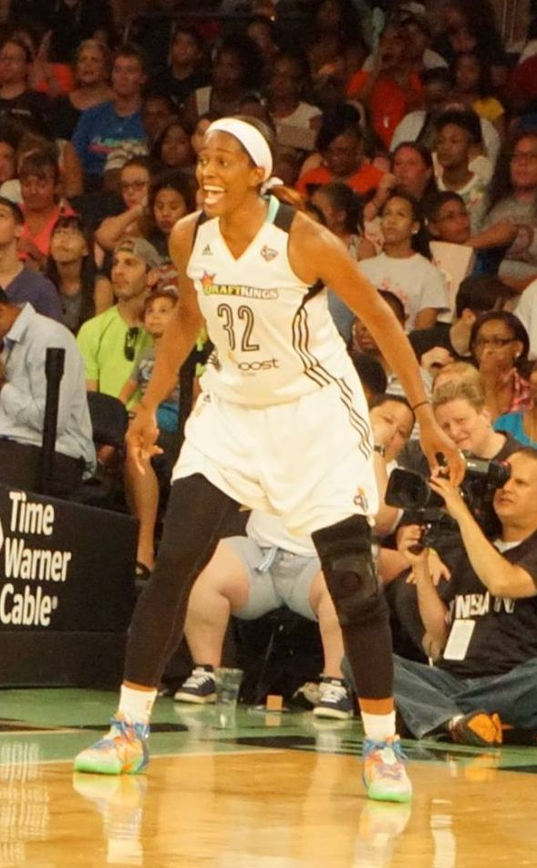 Swin Cash at 2 August 2015 game